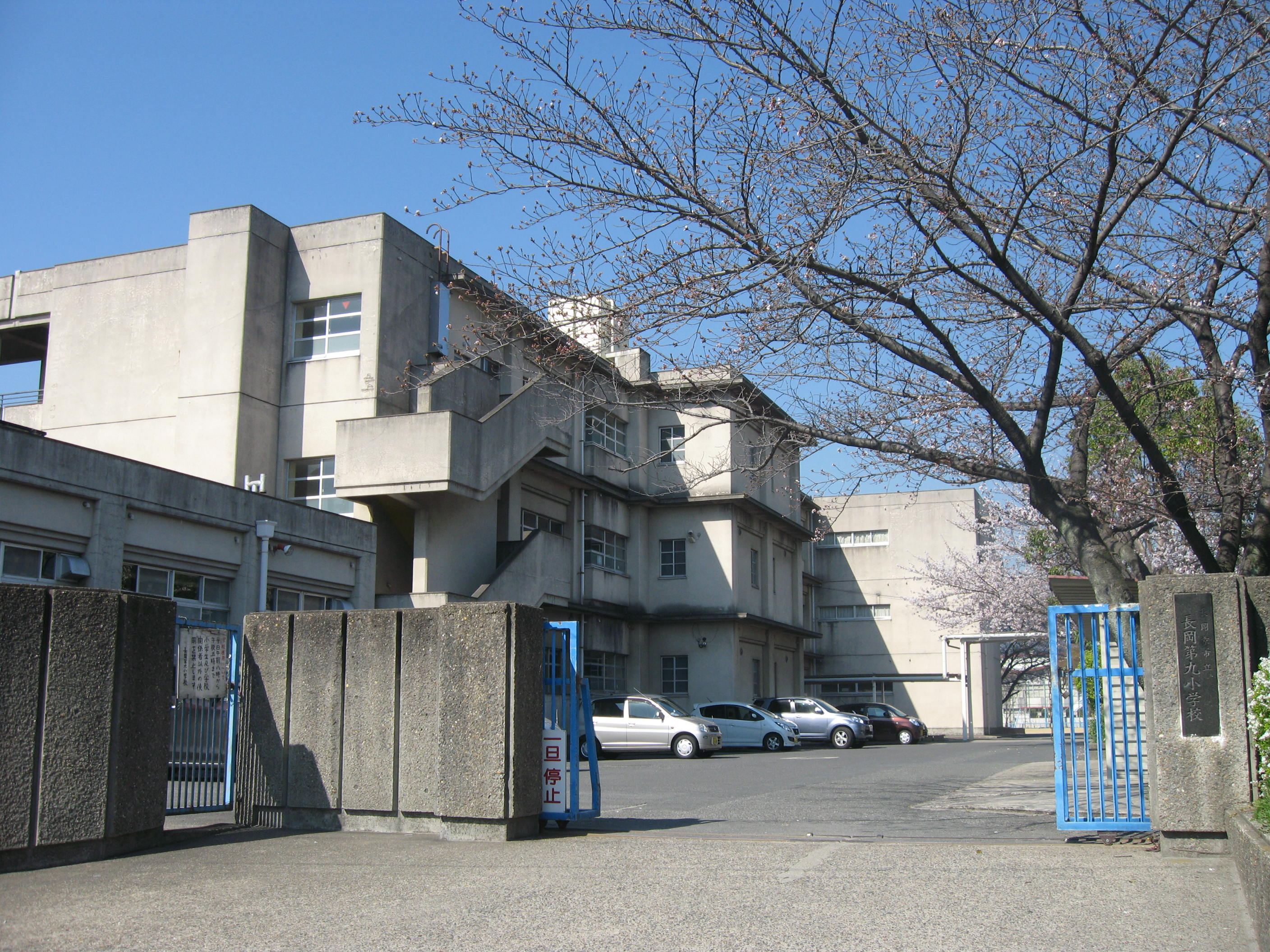 Nagaoka-daikyu_es_in_Kyoto,Japan